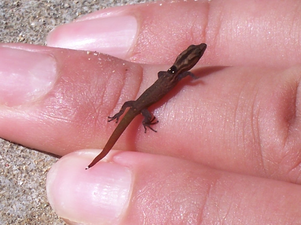 Round-fingerd Gecko, genus Sphaerodactylus